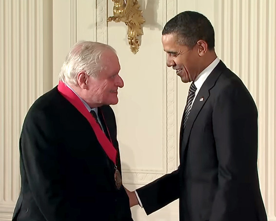 Poet John Ashbery receives a National Humanities Medal from President Barack Obama at the White House.